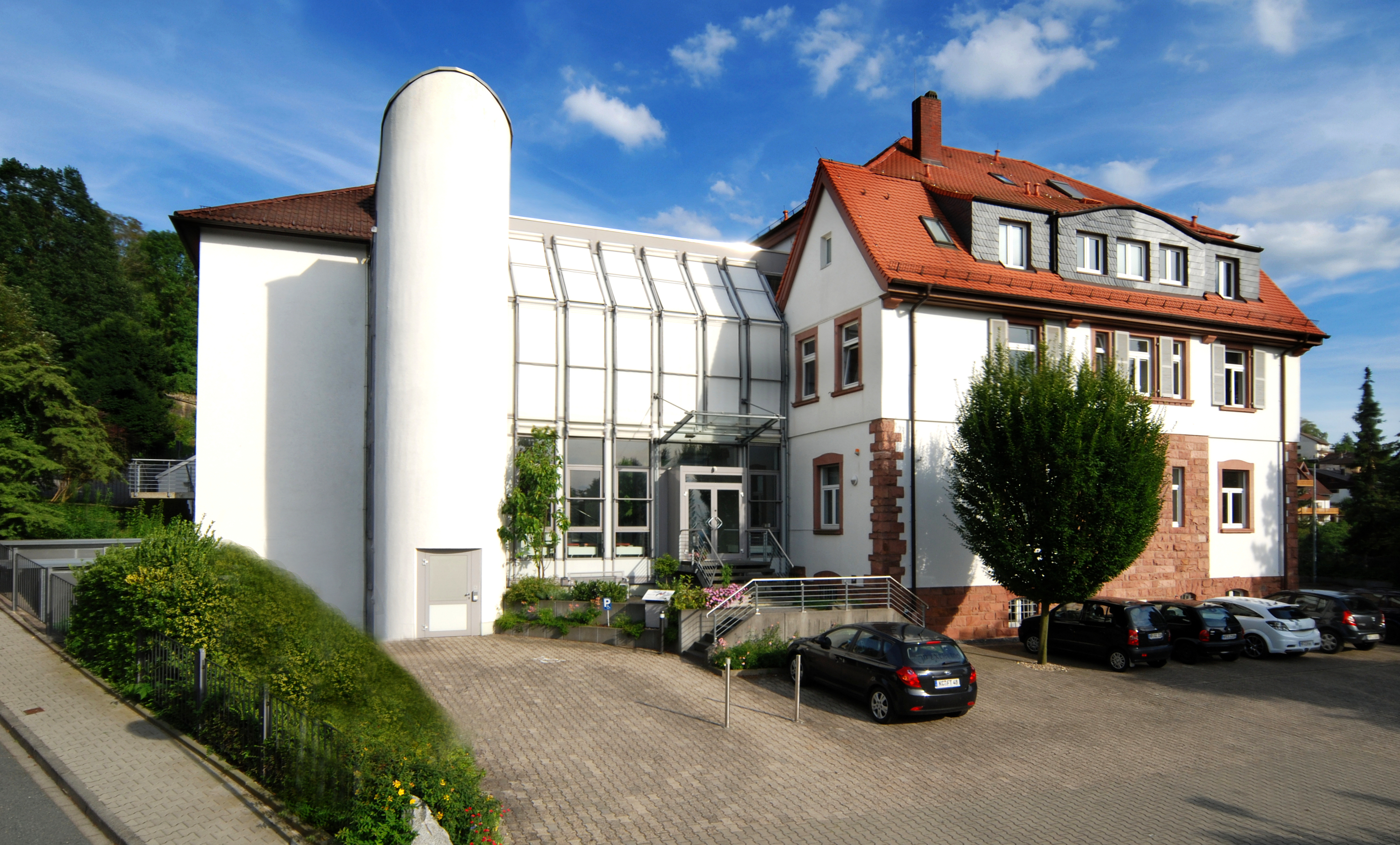 Frontalansicht auf das Haus am Maiberg, Heppenheim, Akademie für politische und soziale Bildung, getragen von der Diözese Mainz